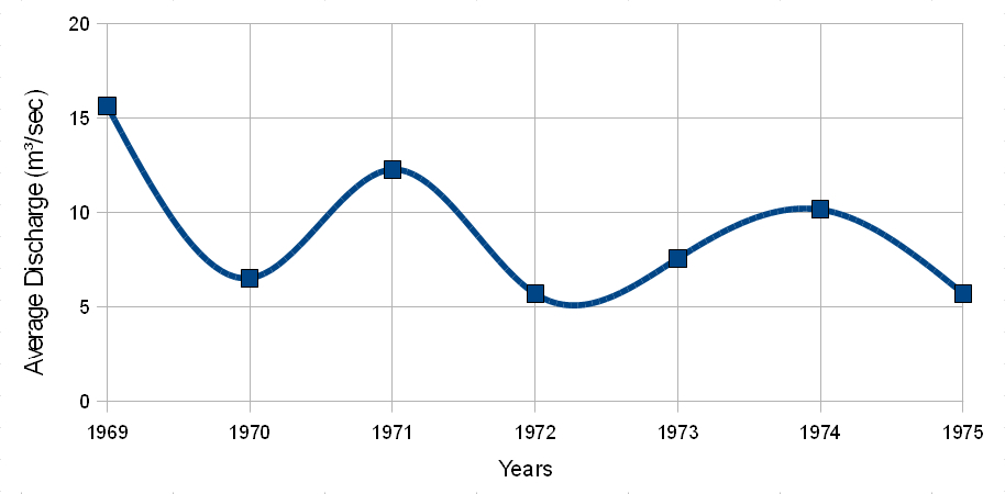 Average annual discharge of Yarkon River, Israel during 1969 and 1975.